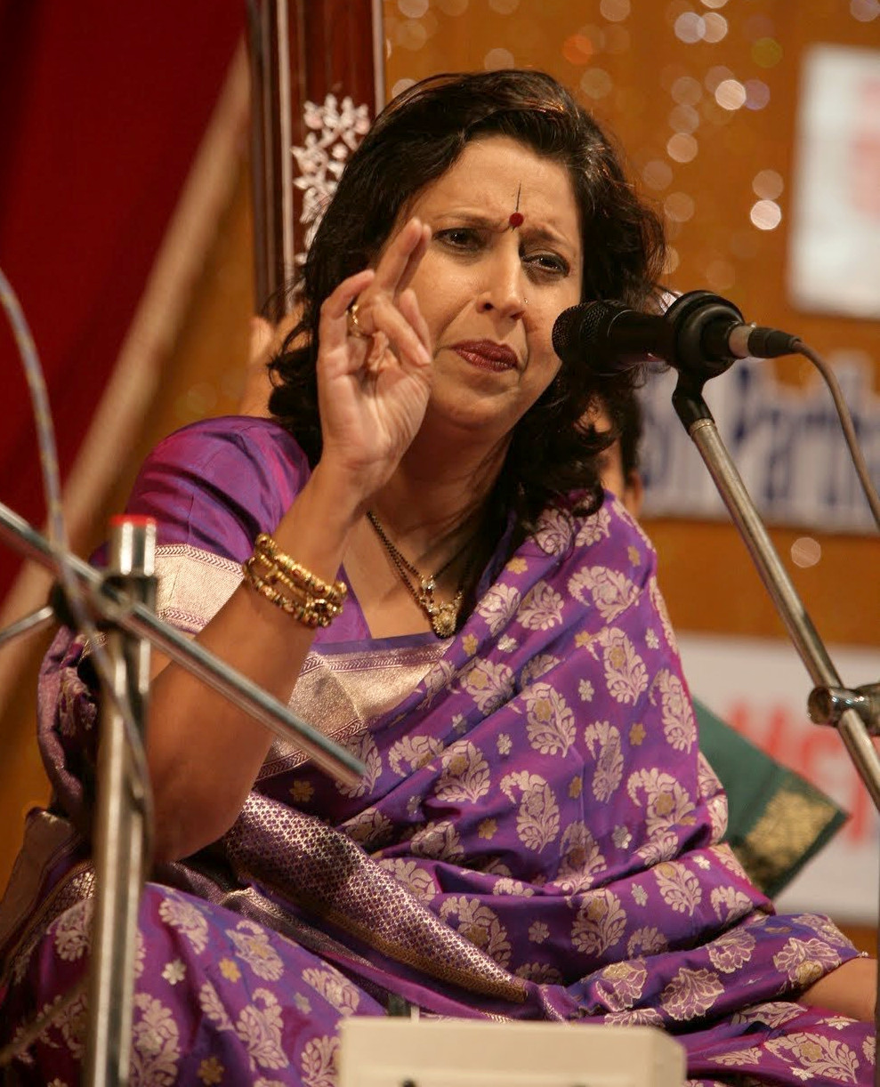 Arati Ankalikar Tikekar ji in a concert